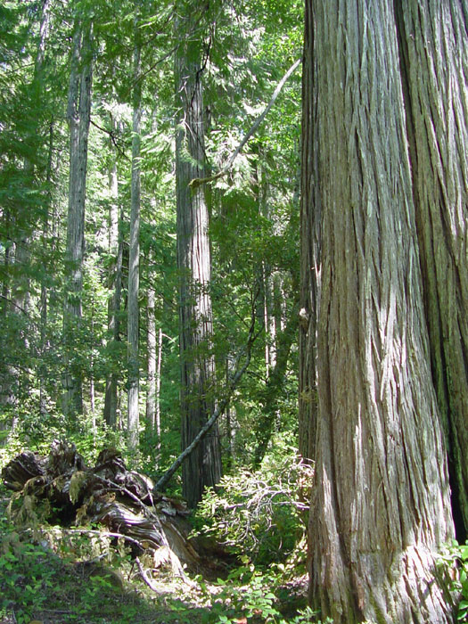 Old-growth Lawson's Cypress Chamaecyparis lawsoniana at Blue Lake trail, Fish Lake, California